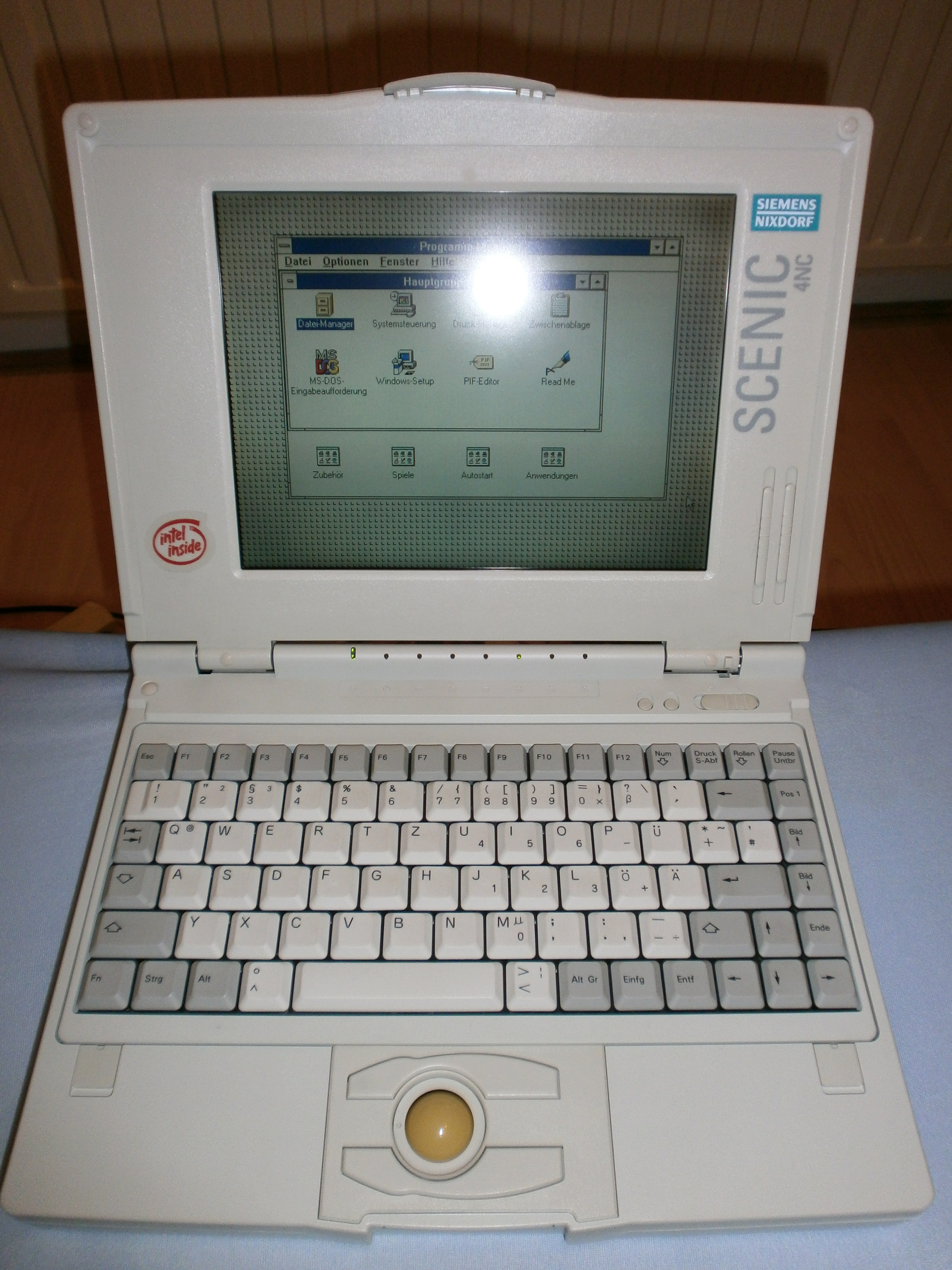 Siemens Scenic 4NC Portable 1994